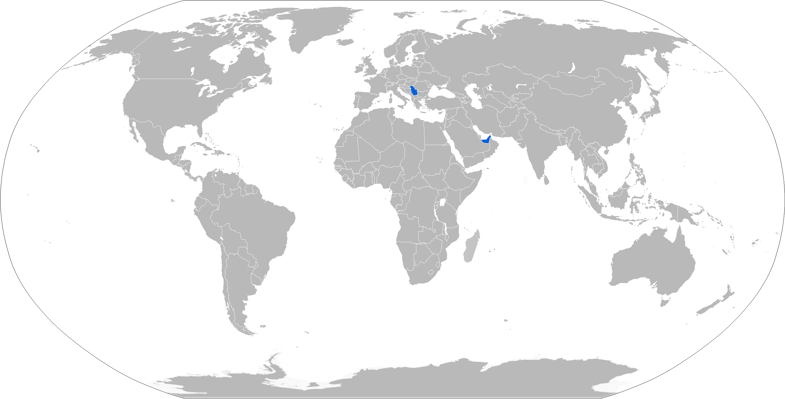 Map with ALAS operators in blue